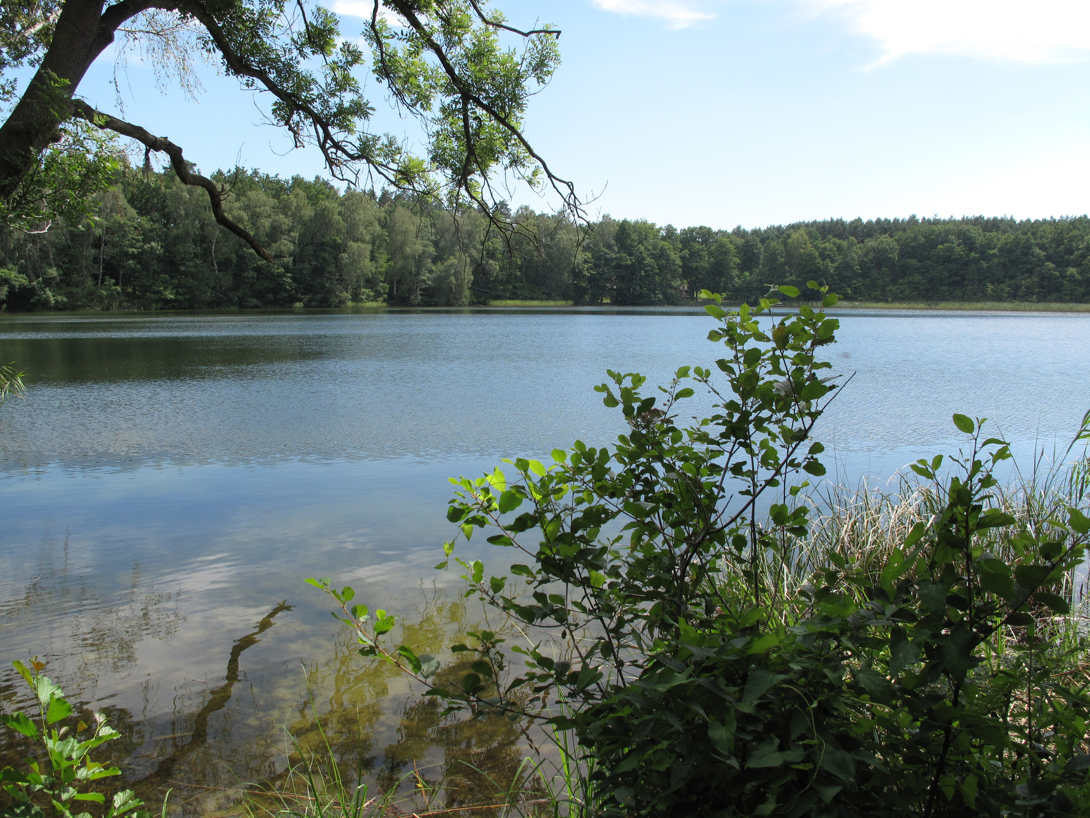 The Dolgensee is a lake in Ringenwalde, a village of the municipality Märkische Höhe in the District Märkisch-Oderland, Brandenburg, Germany. The lake covers 25 hectare and is situated in the Märkische Schweiz Nature Park.